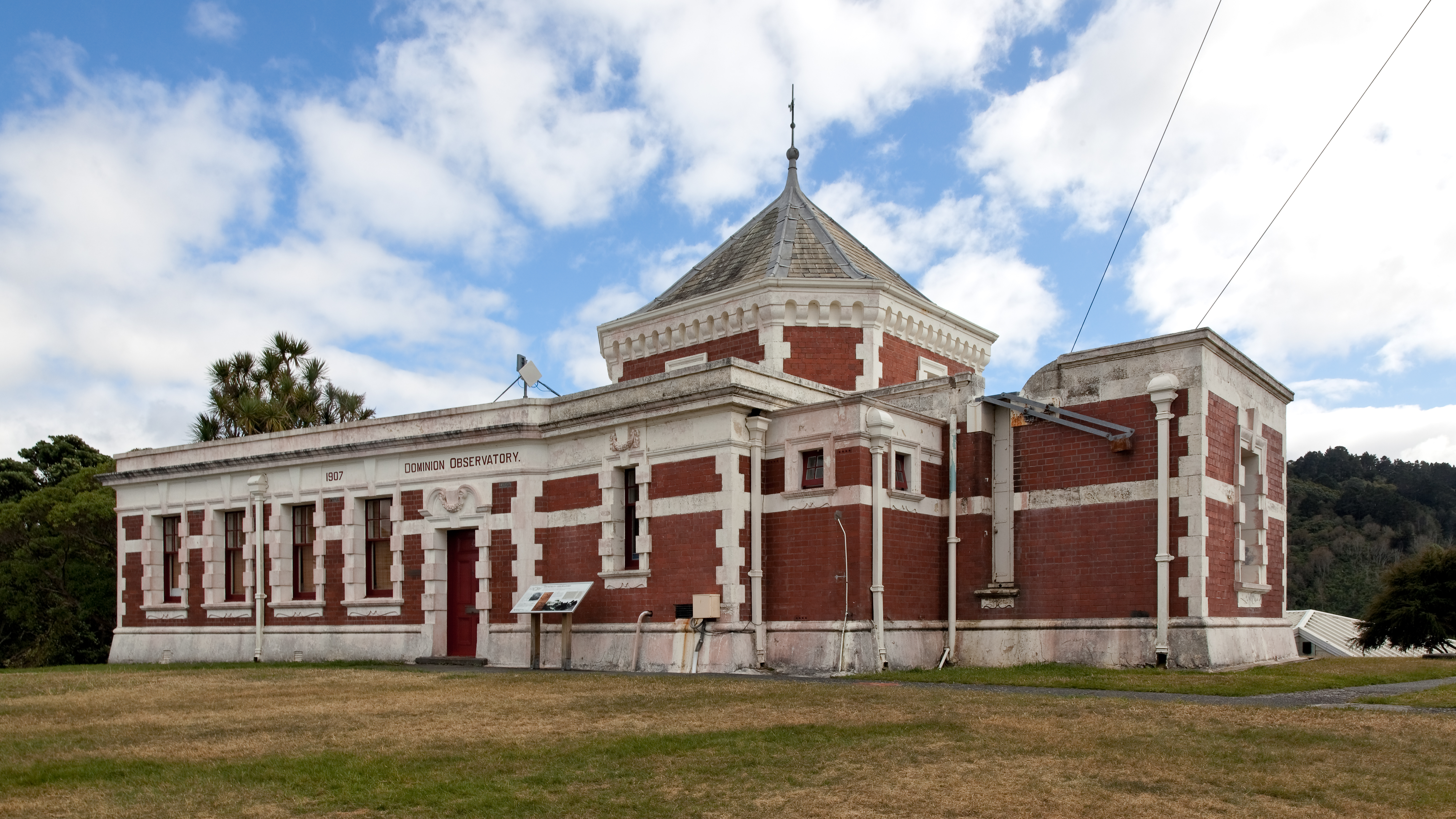 The Dominion Observatory in Wellington is registered by the New Zealand Historic Places Trust as a Category I structure, with registration number 4700.